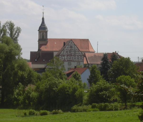 View of Ballenberg, a small town in Baden-Württemberg, from the north